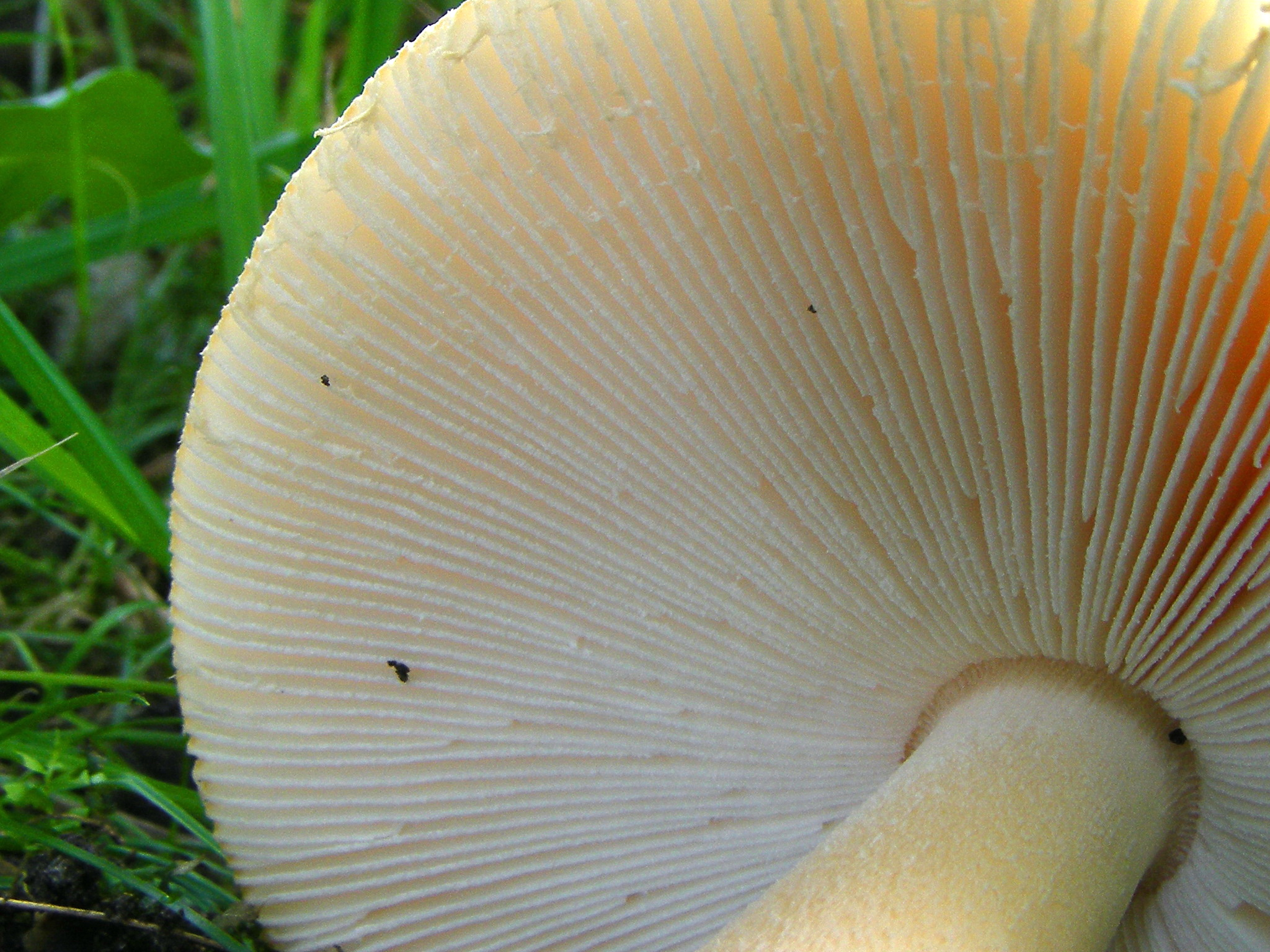 Amanita crocea - hymenophore.